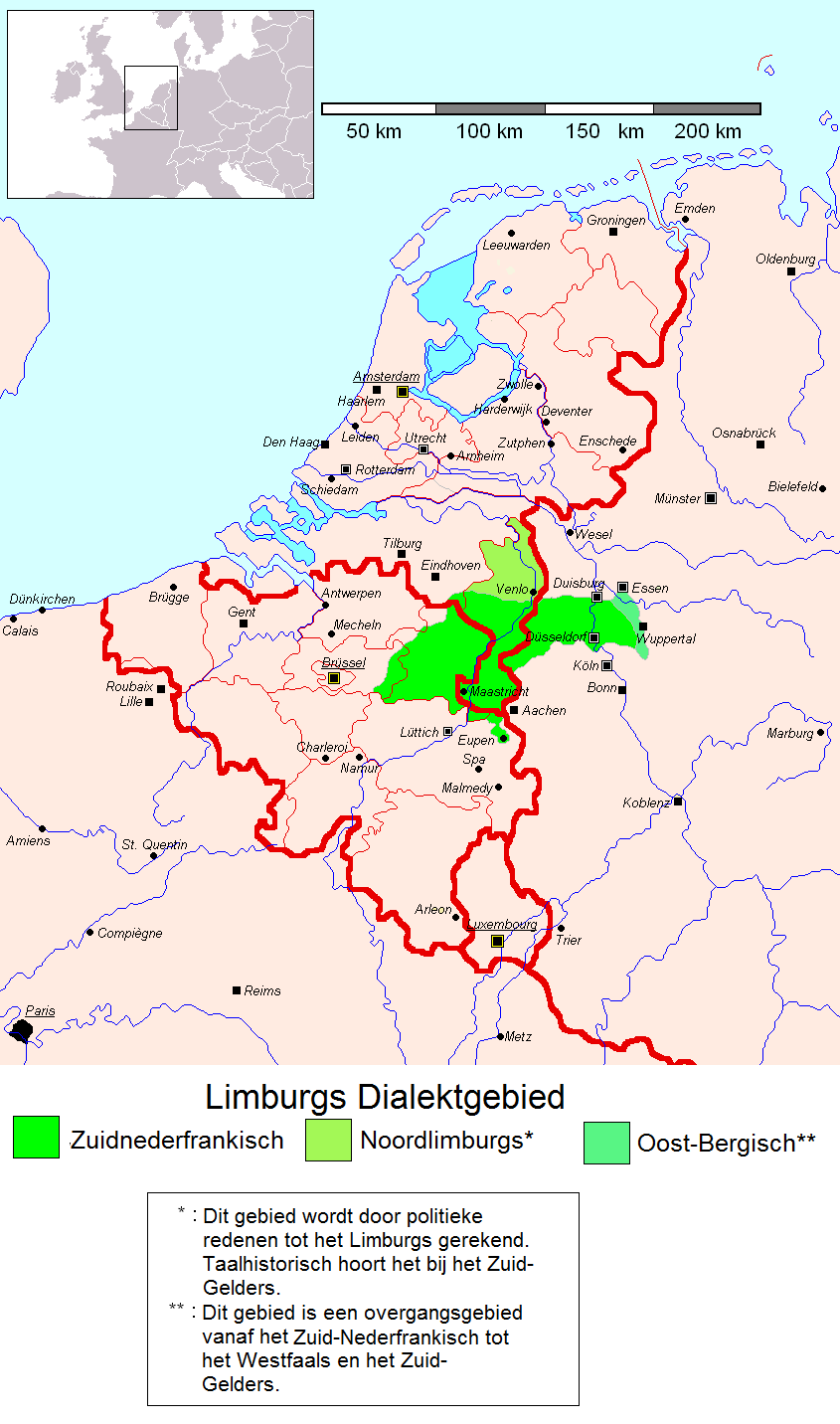 Spreading of 3 limburgish dialects. Picture in Dutch